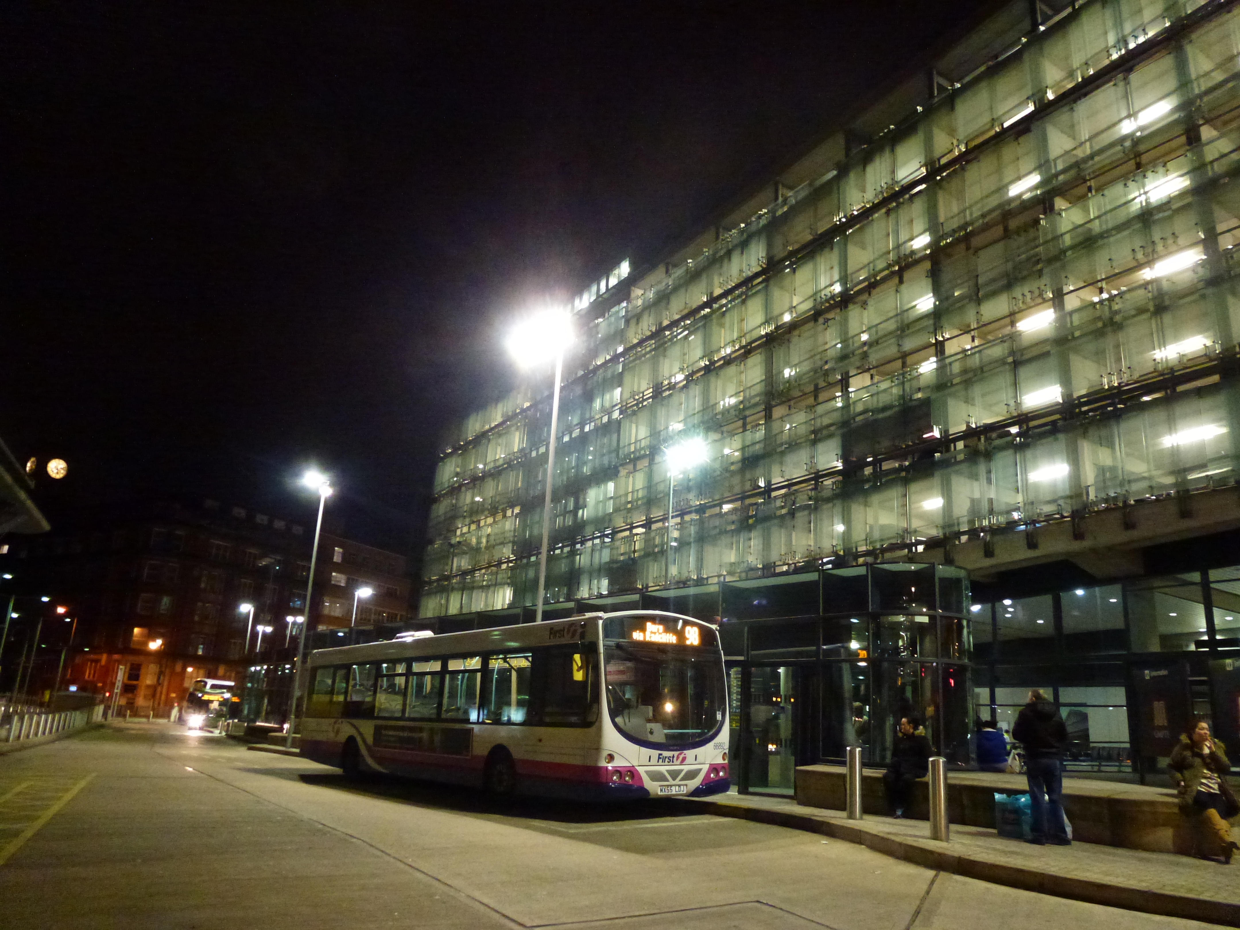 Wright Eclipse Urban-bodied Volvo B7RLE. Seen here at Shudehill Interchange on Saturday 3rd November 2012, it's seen waiting to depart on the 98 service towards Bury